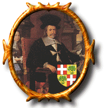 Nicolas Cotoner (1608-1680)